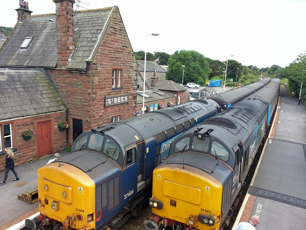 Two passengers trains crossing at St Bees station